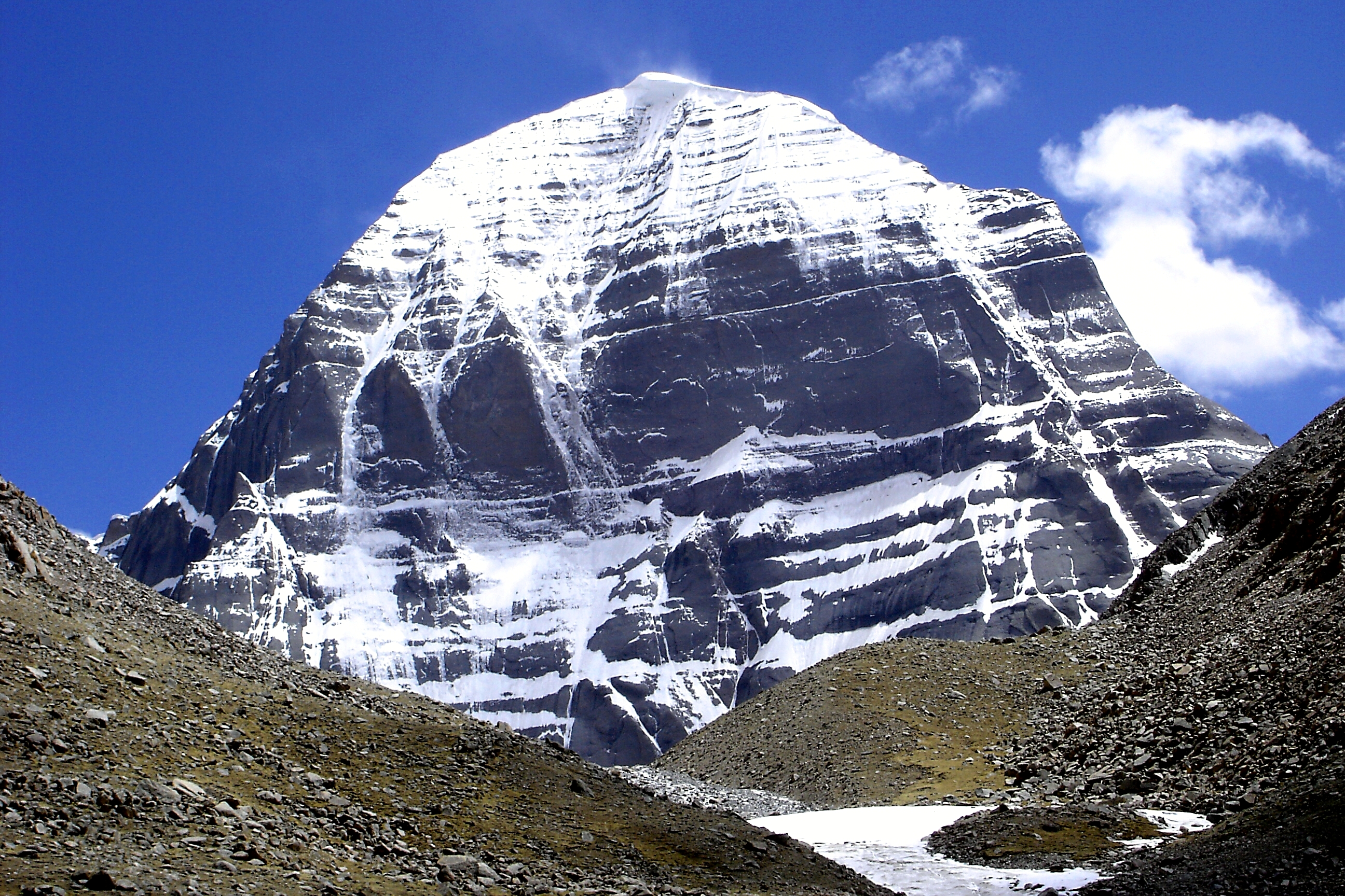 Northern side of Mt Kailash (Tibet Autonomous Region, People's Republic of China).